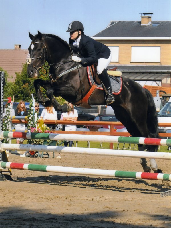 An Andalusian horse showjumping.